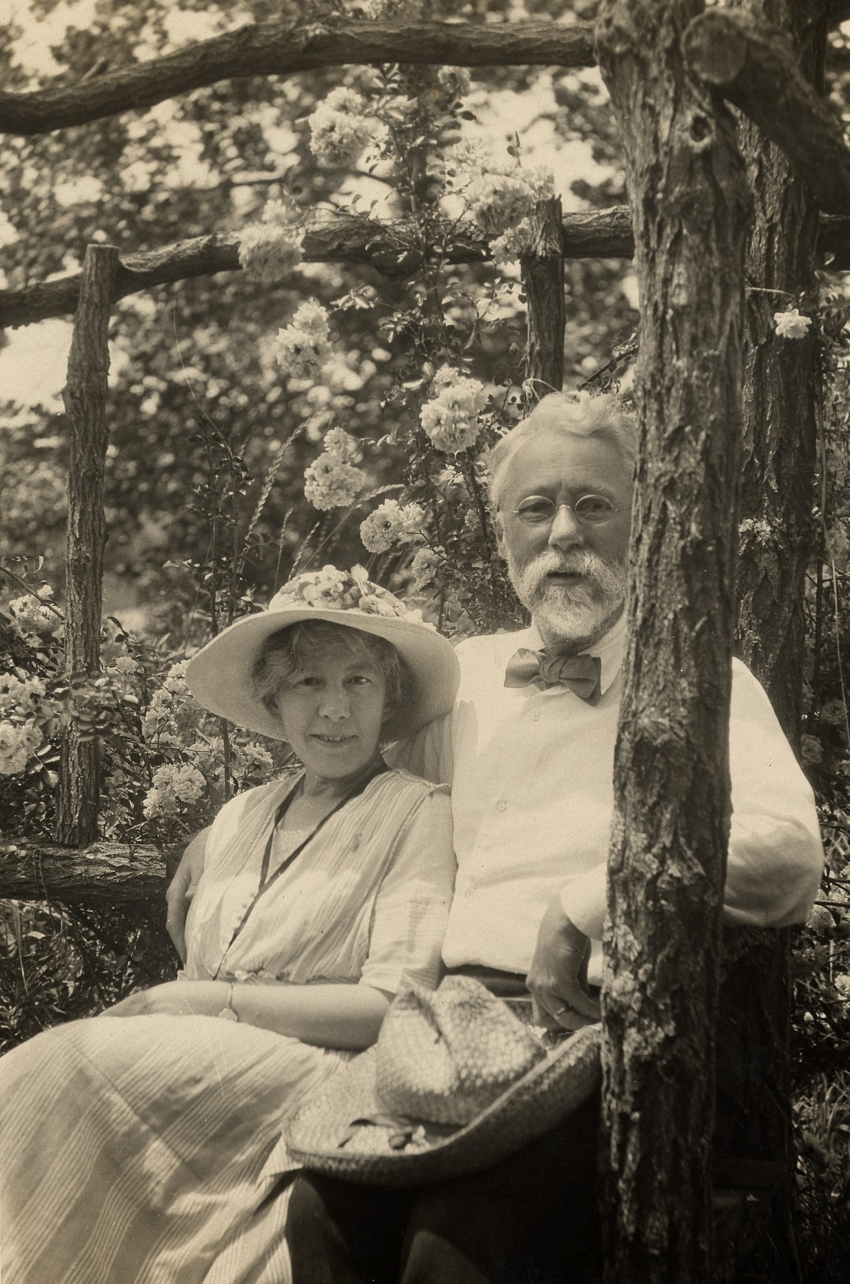 Bessie Potter Vonnoh & Robert Vonnoh in Lyme, CT, ca. 1930, photographic print; b&w; 30 x 21 cm